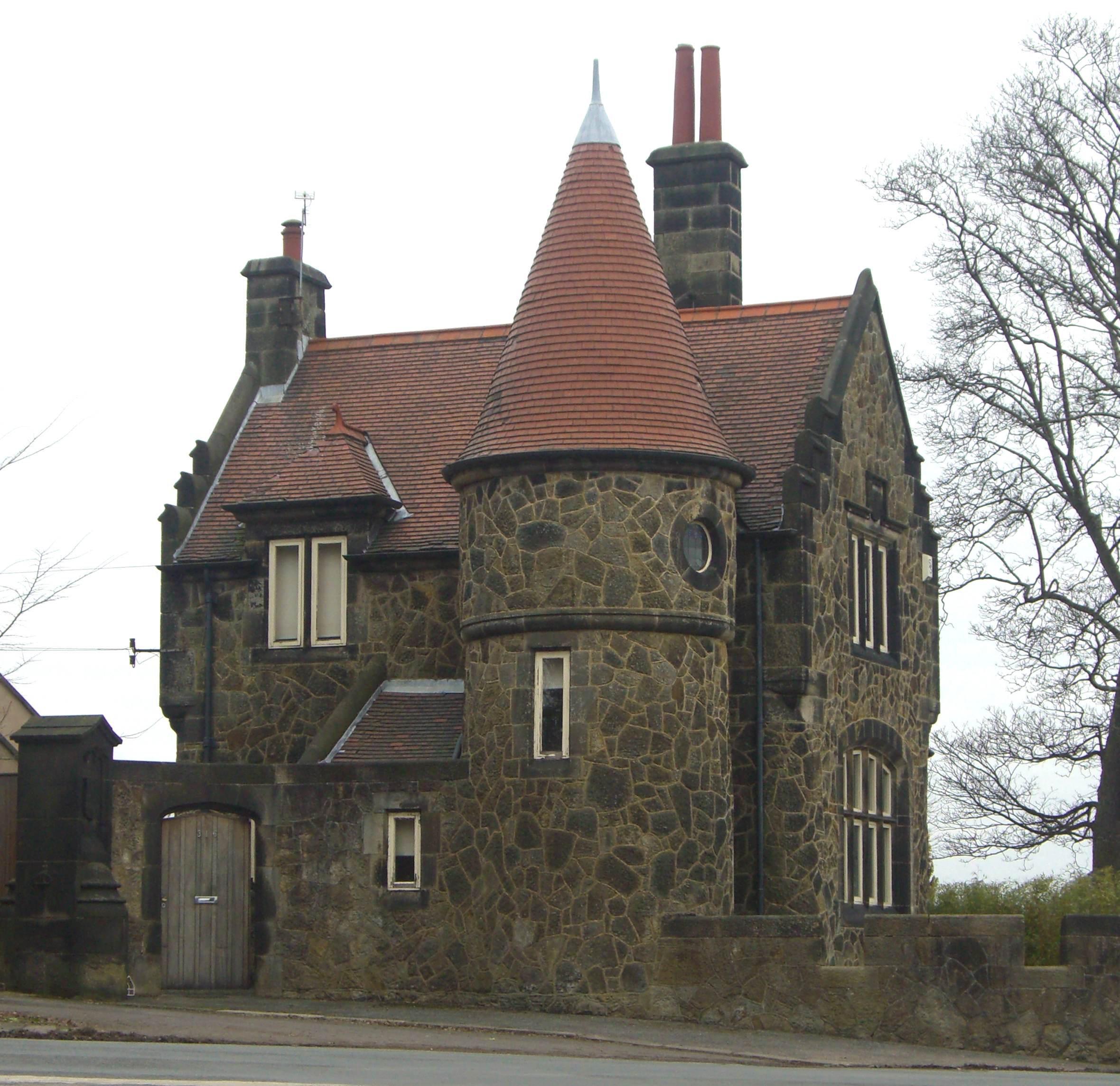 The lodge at The Tower, a small country house at Sandygate, Crosspool, Sheffield, England.